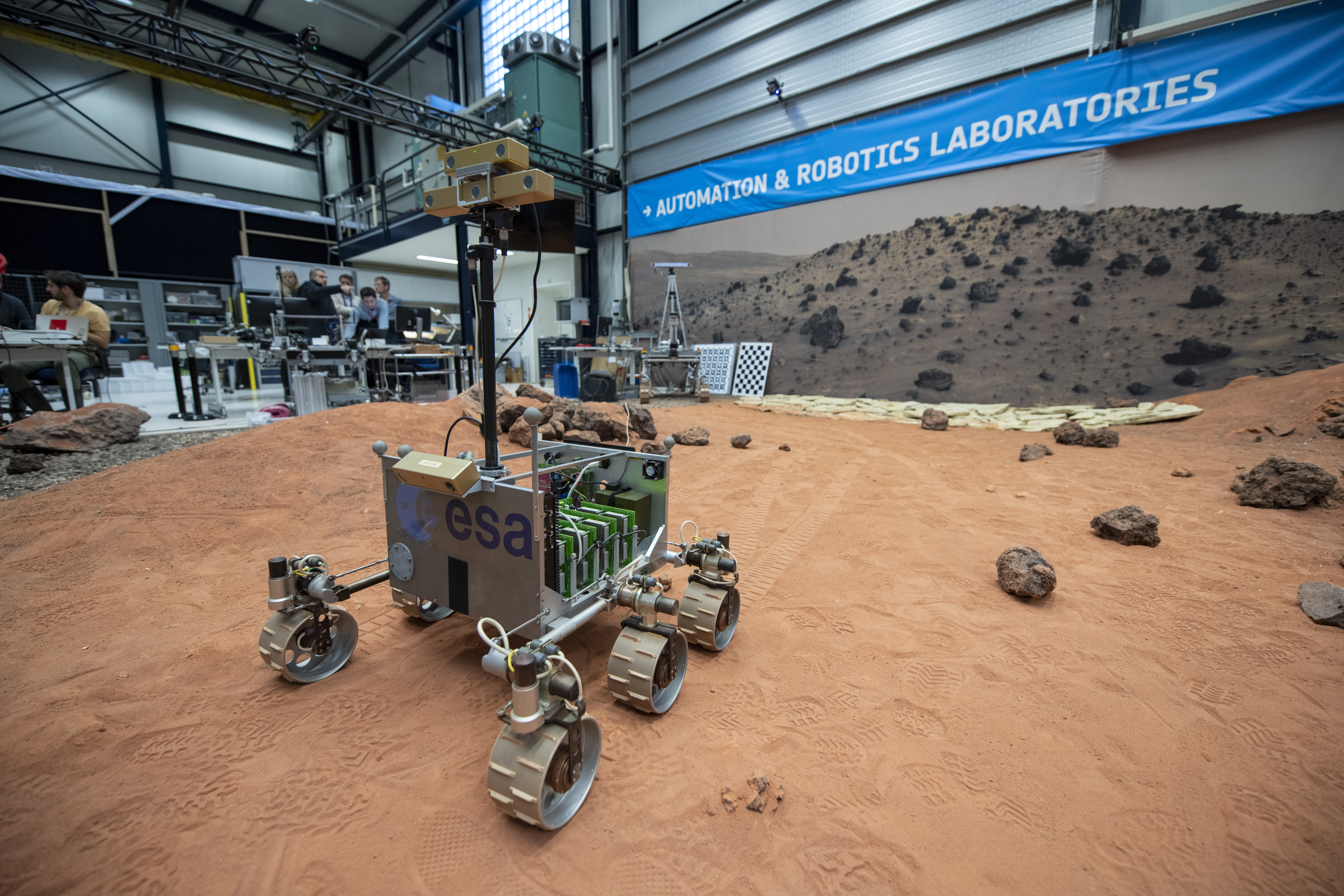 A half-scale version of the ExoMars rover, called ExoMars Testing Rover (ExoTeR), seen manoeuvring itself carefully through the red rocks and sand of 9x9 m Planetary Utilisation Testbed, part of ESA’s Planetary Robotics Laboratory in its ESTEC technical centre in the Netherlands, as a test of autonomous navigation software destined for ESA’s ExoMars 2020 mission to the Red Planet.